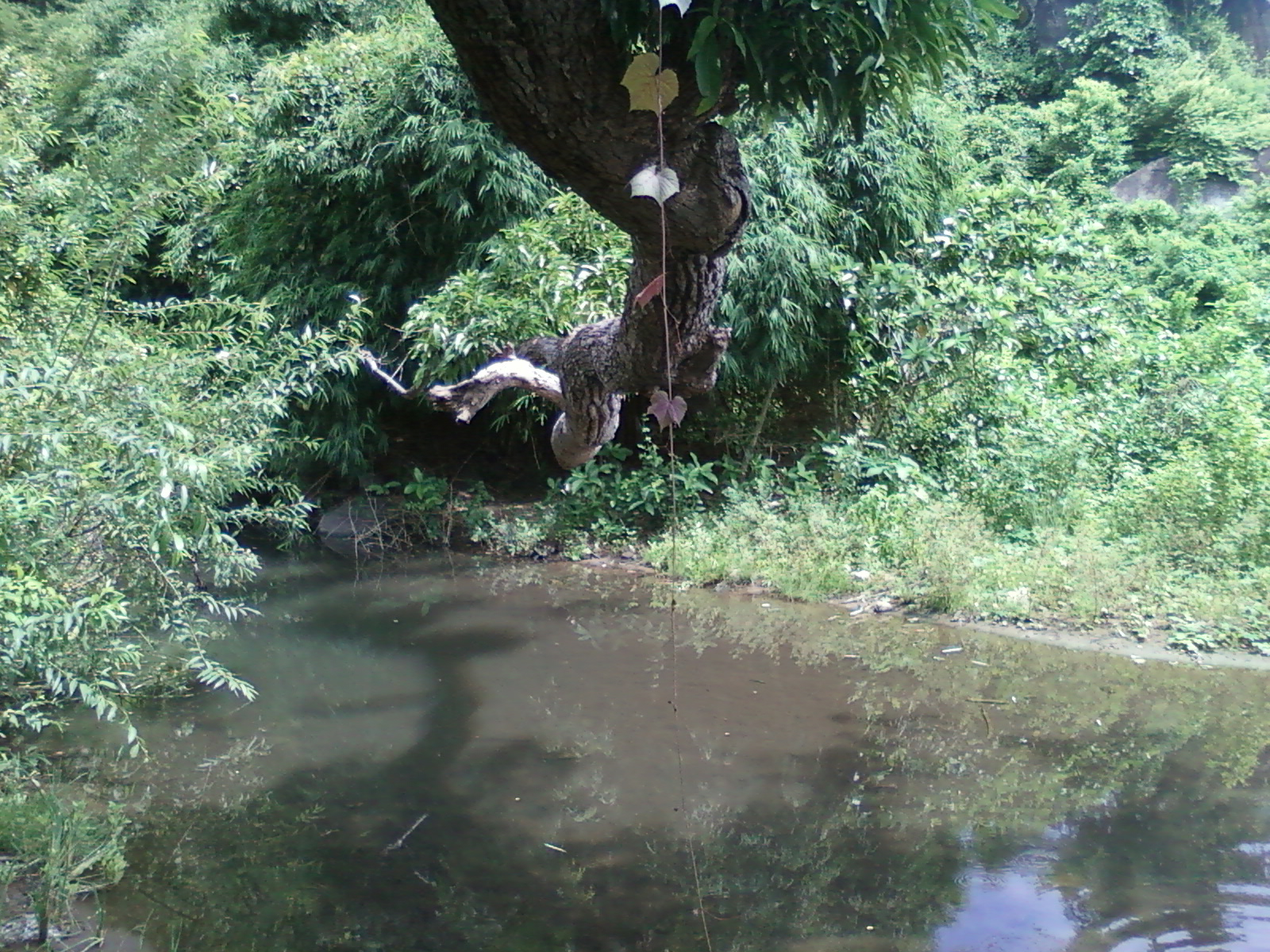 Punyagiri near Srungavarapukota, Vizianagaram district, Andhra Pradesh, India.